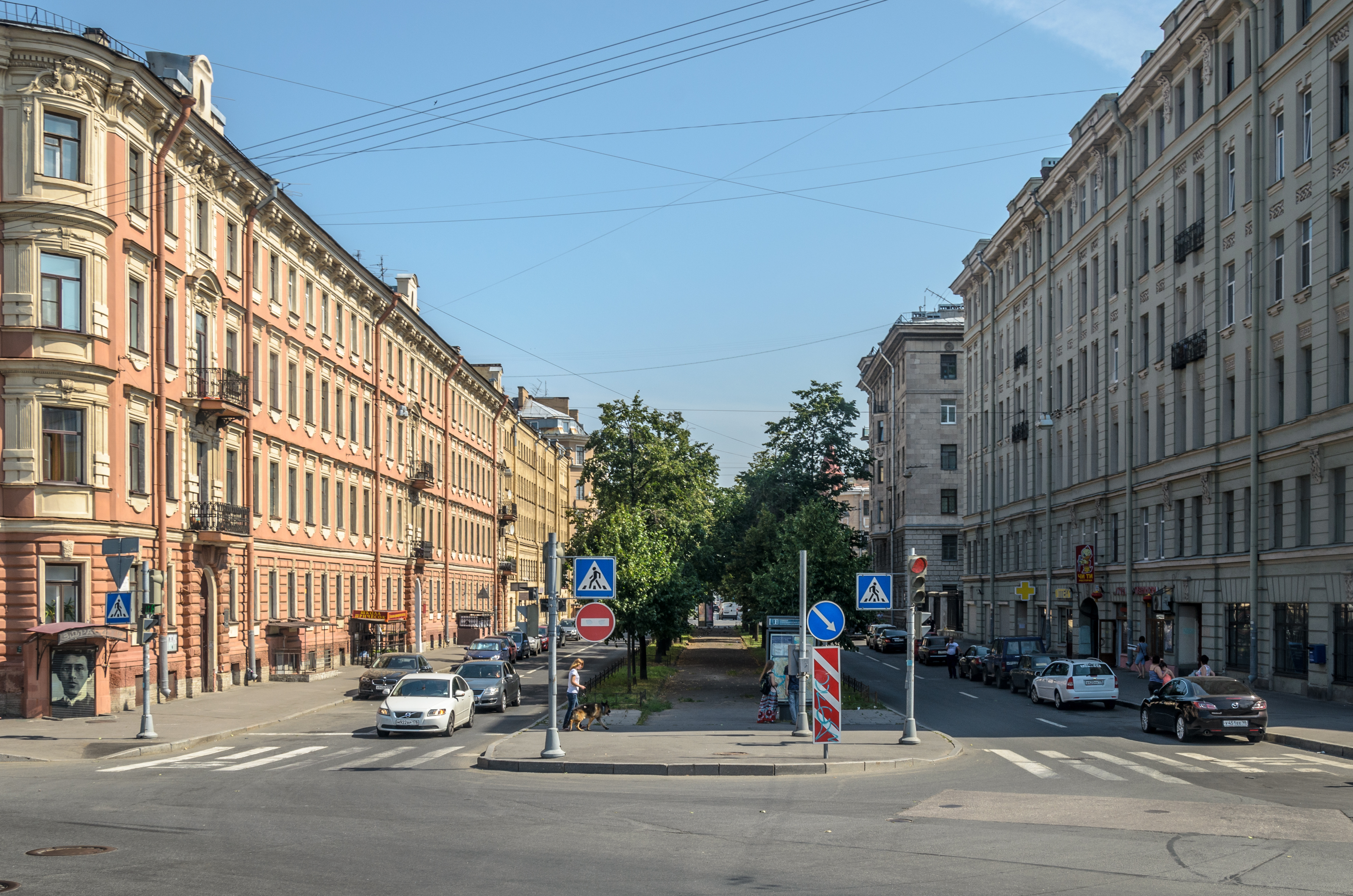 Dekabristov Street in Saint Petersburg